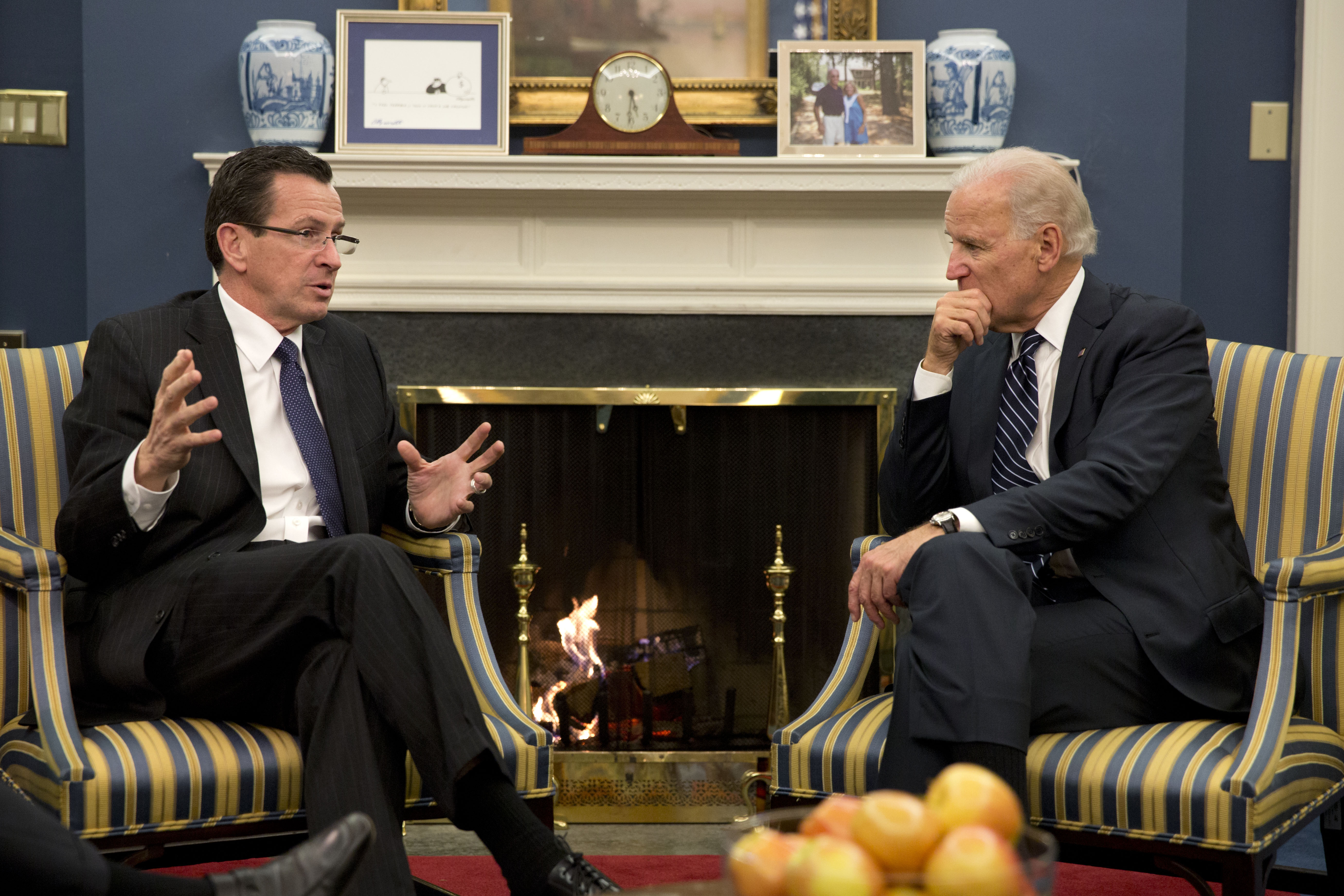 Friday, January 18, 2013 -- Vice President Joe Biden meets with Connecticut Governor Dan Malloy in his West Wing office in Washington, DC, Jan. 18, 2013. (Official White House Photo by David Lienemann)